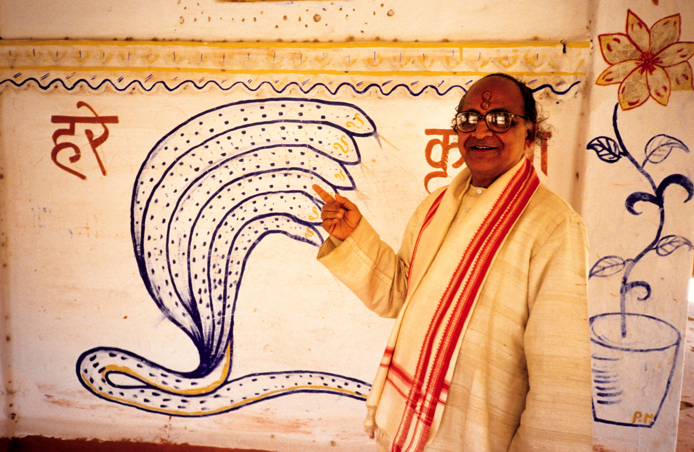 photo of vagish shastri